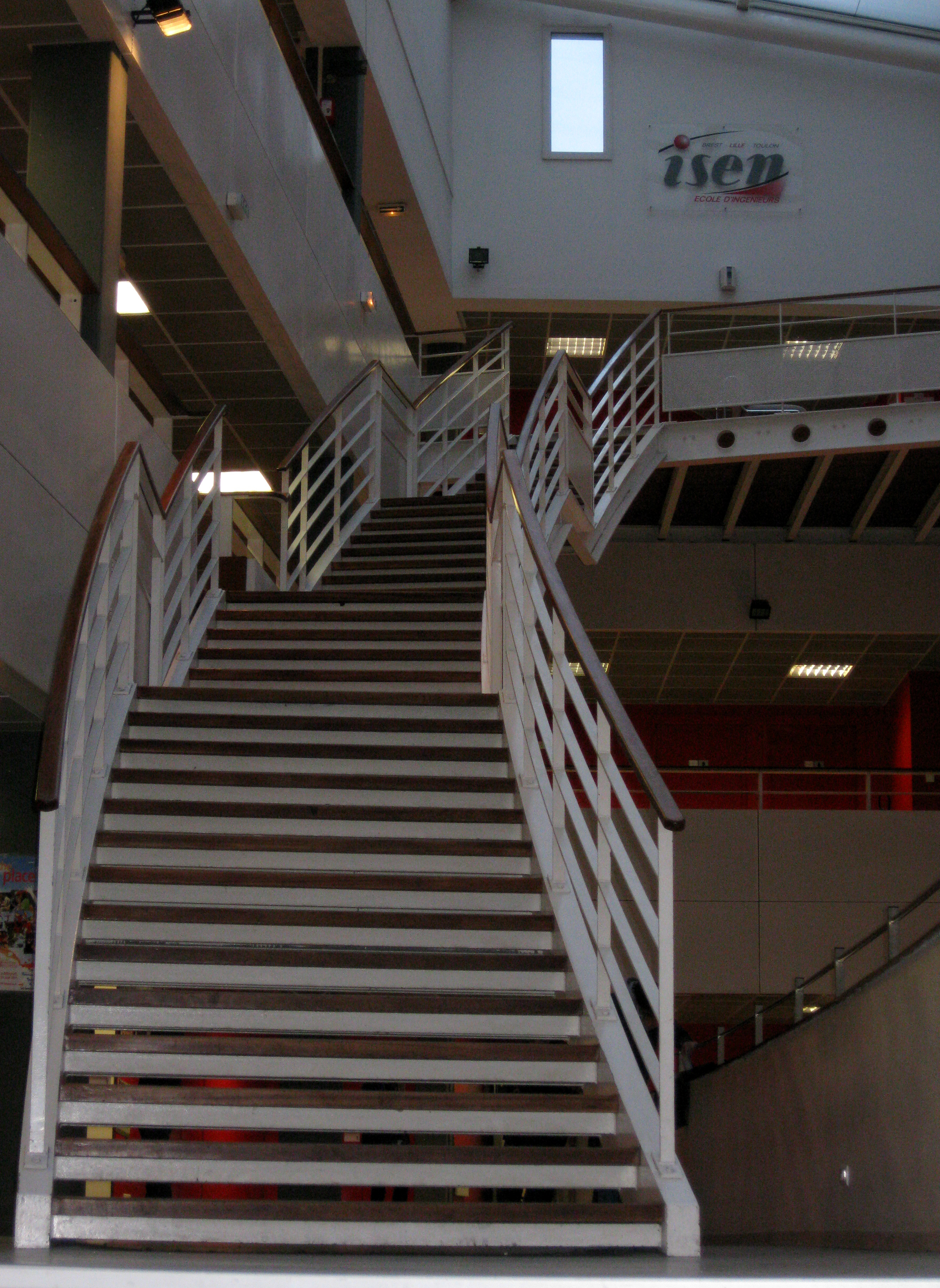 ISEN